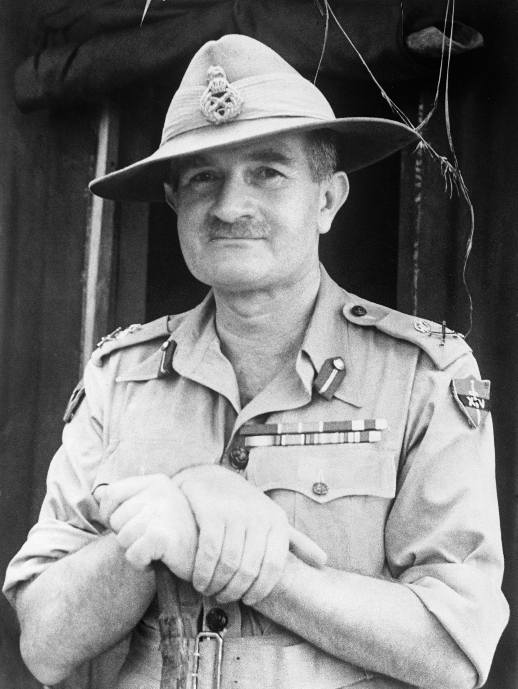 British Generals 1939-1945 Field Marshal Sir William Slim (1891 - 1970): Portrait of the 14th Army Commander.